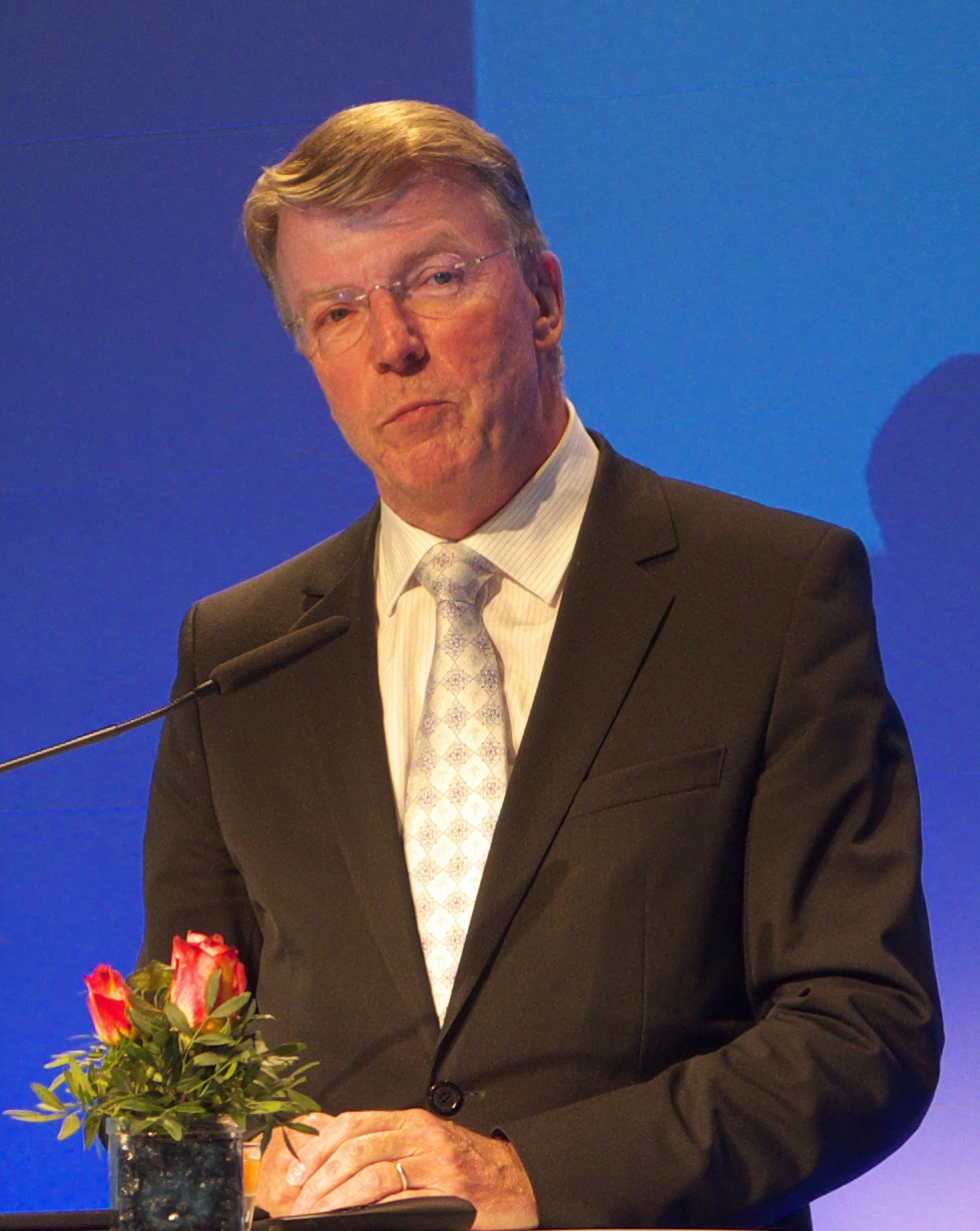 Franz-Josef Britz, Mayor of Essen, Germany